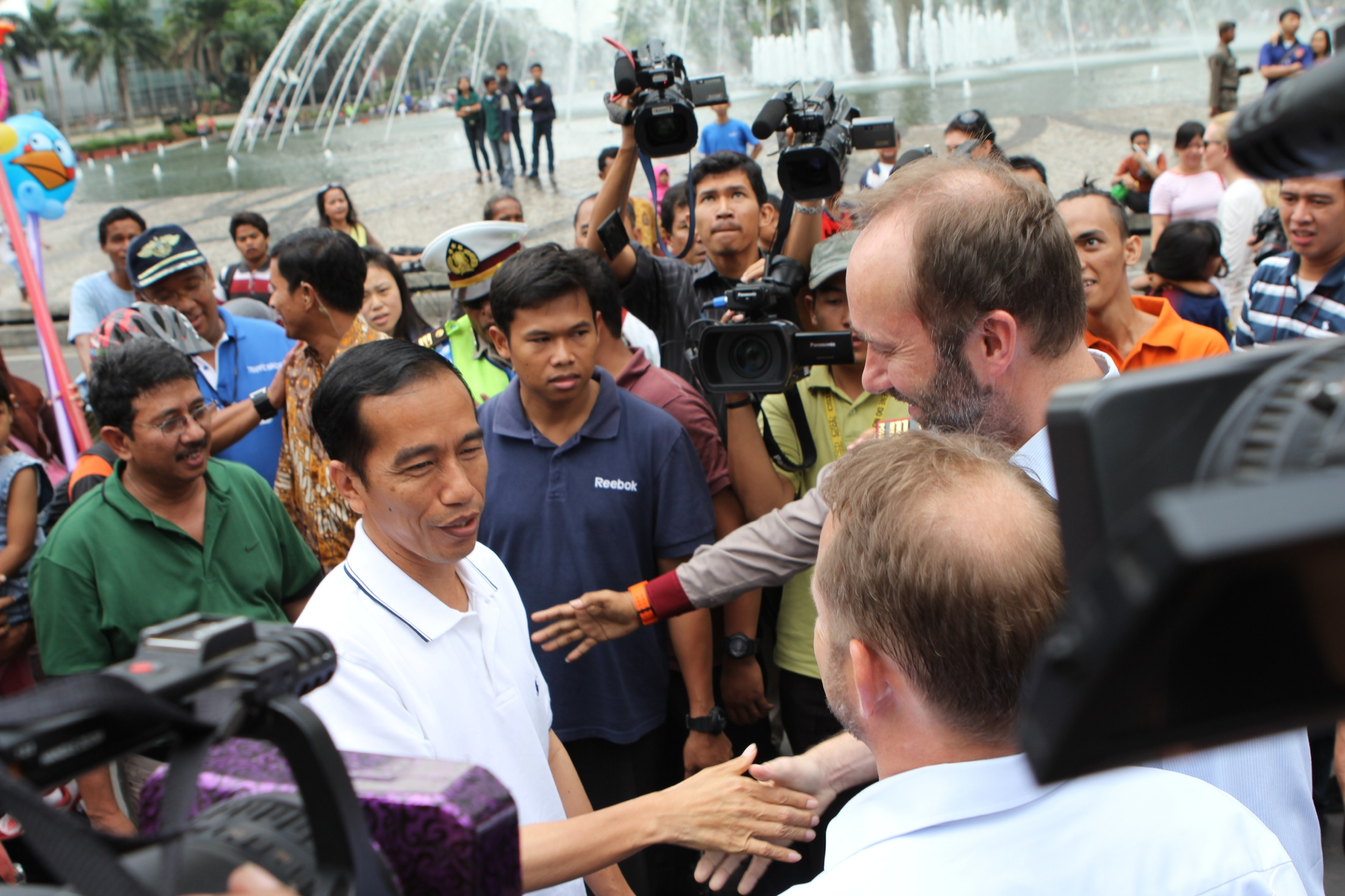 Then Governor of Jakarta Joko Widodo shakes the hand of then Norwegian minister of trade and industry Trond Giske, along with then minister of the environment Bård Vegar Solhjell who were accompanying HRH Crown Prince Haakon and HRH Crown Princess Mette-Marit on a three day visit to Indonesia. Foto: Øystein Solvang/NHD